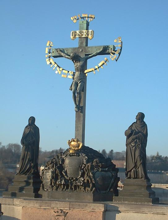 Statue of St. Calvary at Charles Bridge, Prague. , The Hebrew text says: "Holy, Holy, Holy, is the LORD of hosts" (Isaiah 6:3), In Hebrew: „קדוש קדוש קדוש יהוה צבאות“, punctuated: „קָדוֹשׁ קָדוֹשׁ קָדוֹשׁ ה' צְבָאוֹת“ (ישעיהו, פרק ו׳ פסוק ג׳)